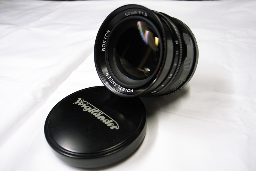 Voigtlander Nokton 50mm F1.5 Aspherical; made by Cosina, Japan